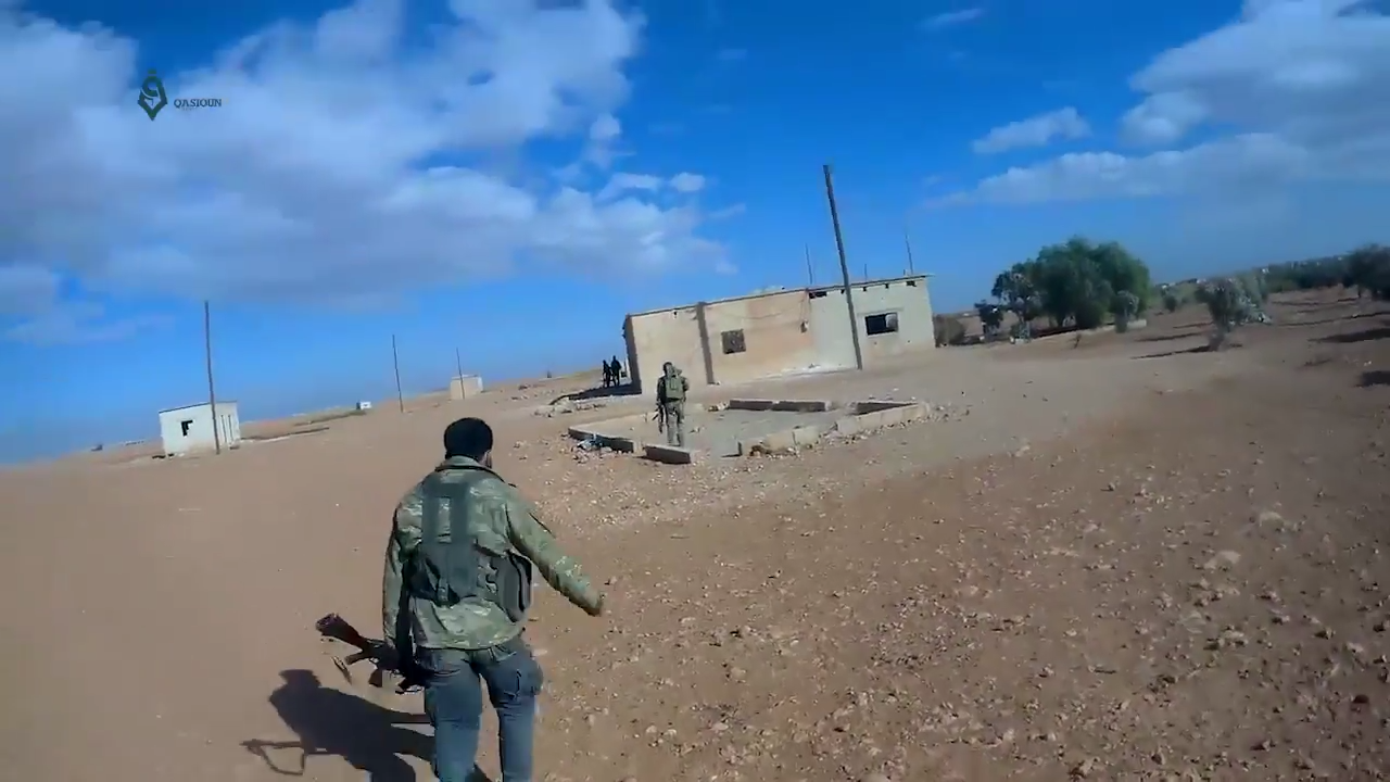 Militants of Hayat Tahrir al-Sham (HTS) in the village of Mushairfa, northeast of Hama, after the withdrawal of the Islamic State of Iraq and the Levant (ISIL) from the village.